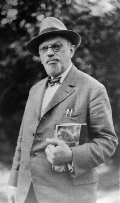 Max Adler (1873–1937), Austrian jurist, politician and social philosopher.